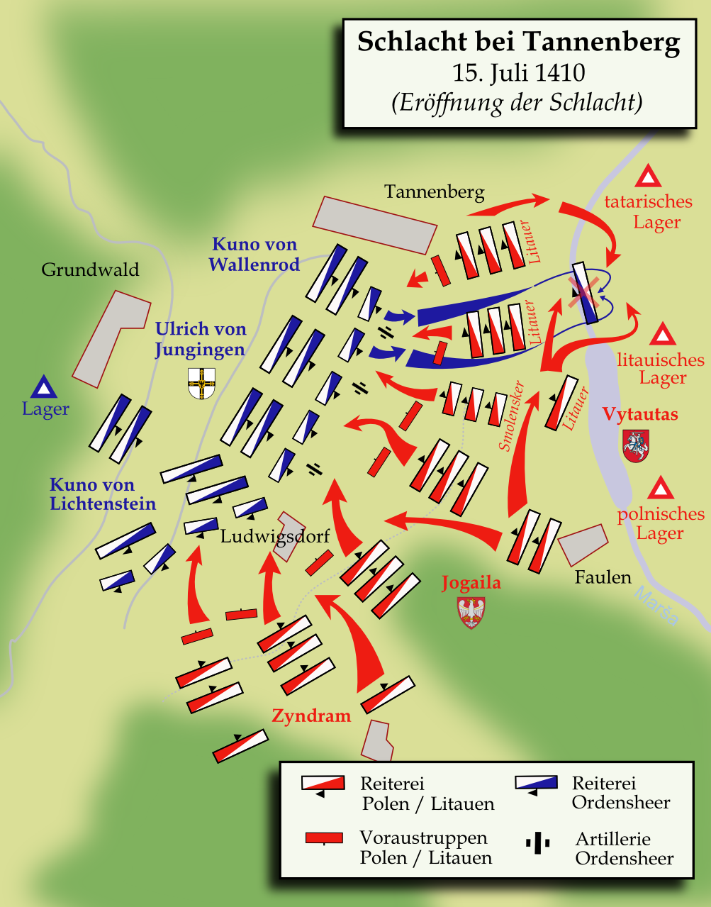 Map (in German language) showing the opening phase of the Battle of Grundwald (or Tannenberg) on July, 15th 1410.